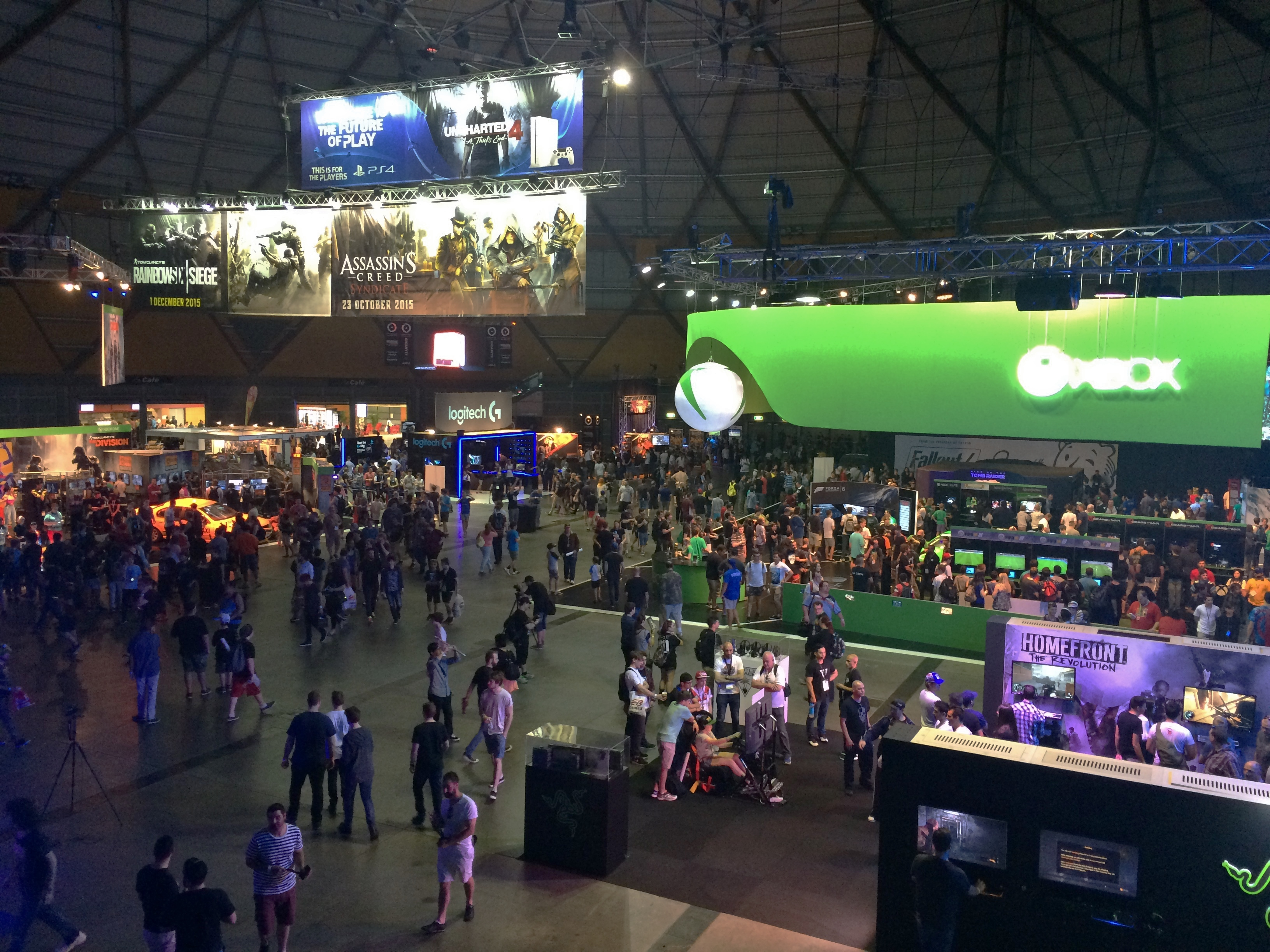 A view of the show floor in The Dome (Sydney Showground Hall 1) during the EB Games Expo 2015. Taken from the elevated walkway in The Dome, both the Ubisoft pavilion (left) and the Xbox One pavilion (right) can be seen, with the Logitech booth also in view to the right of Ubisoft. QVS and Turn Left's booth can be seen in the foreground to the bottom right.